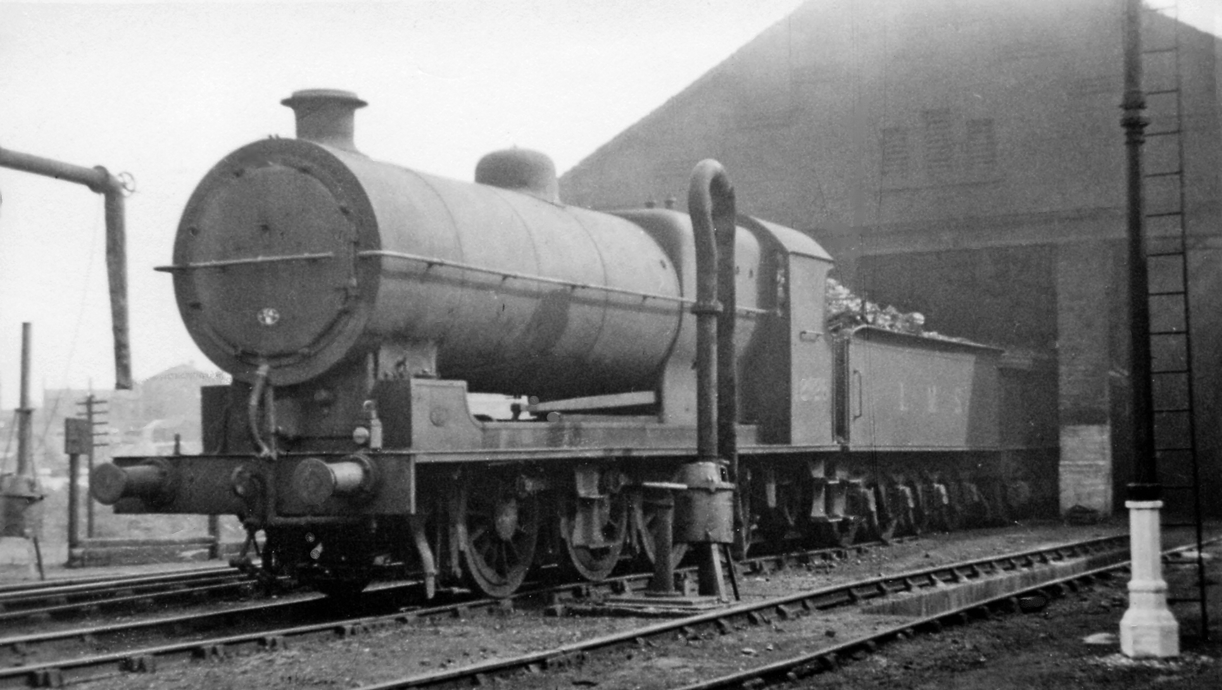 Survivor of a large class of ex-L&Y, at Normanton Locomotive Depot. No. 12928 is a 7F 0-8-0, built by Hughes c. 1920, withdrawn 9/47 - soon after this photograph. Built 29 March 1919, withdrawn 6 September 1947